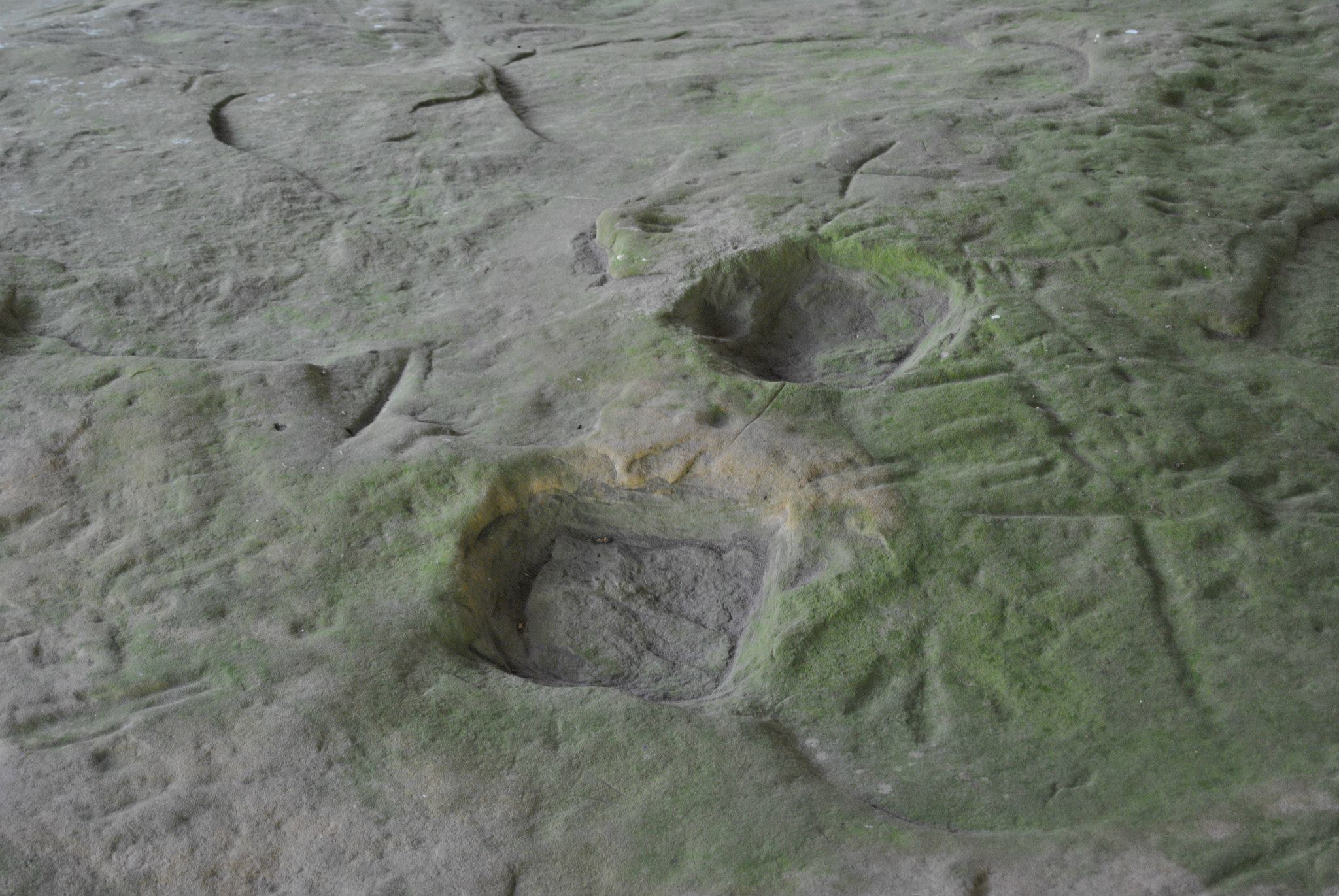 Detail of gaps in the surface of the stone at the Sanilac Petroglyph site in Sanilac County, Michigan. The gaps existed when the site was surveyed in the 1920s, indicating that carvings had been removed from the stone prior to that time period.